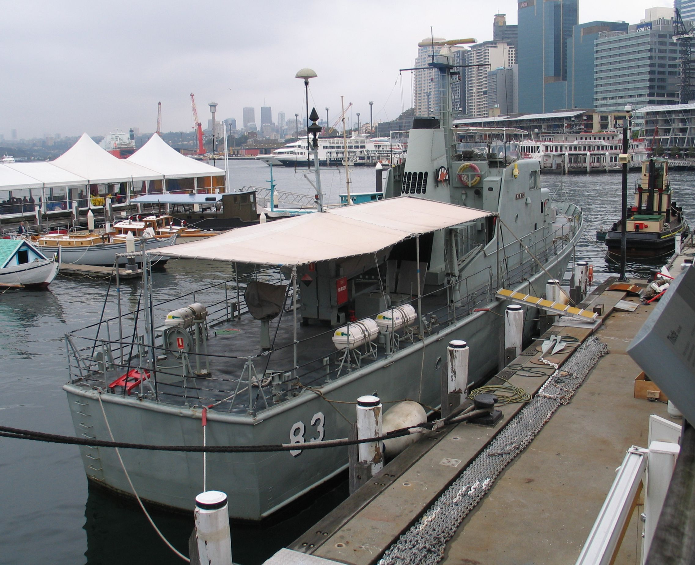 HMAS Advance (P83) patrol boat at the Australian National Mairitme Museum, Sydney, NSW, Australia.